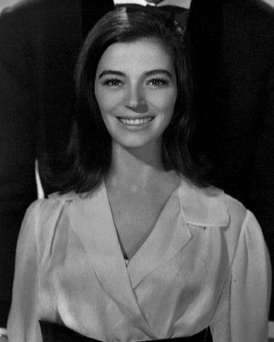 Photo of Jean-Pierre Aumont and Marisa Pavan, who were husband and wife.